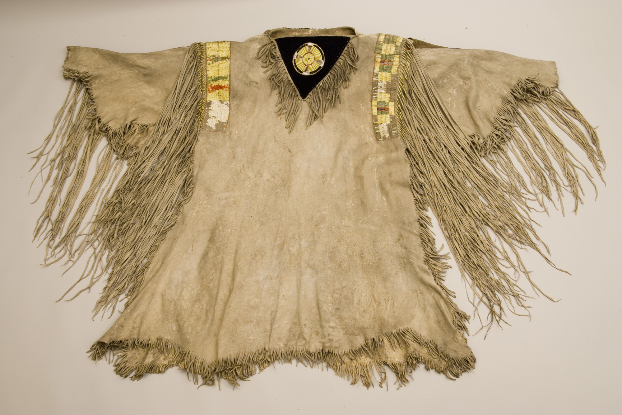 Ceremonial Shirt Plateau c 1820's Animals provided many of the materials needed for clothing. The body of the shirt is made from elk hide and fringes from deer hide. The decorative elements are made of porcupine quills. Before beads came into the trade networks, porcupine quills were used for decoration. The quill is a round, hollow tube that differs in length and thickness. The largest came from the tail and the most delicate from the belly. The quills were flattened, dyed and sewn into the shirt. The shirt is also decorated with Venetian glass beads. Deer skin, elk skin, porcupine quills (Erethizon dorsatum), wool, glass beads. W 146.0, L 94.0 cm Nez Perce National Historical Park, NEPE 8759